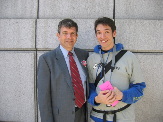 2004 Libertarian U.S. presidential candidate Michael Badnarik with a Creative Commons supporter at a Gay pride parade in San Francisco, California on June 27, 2004.